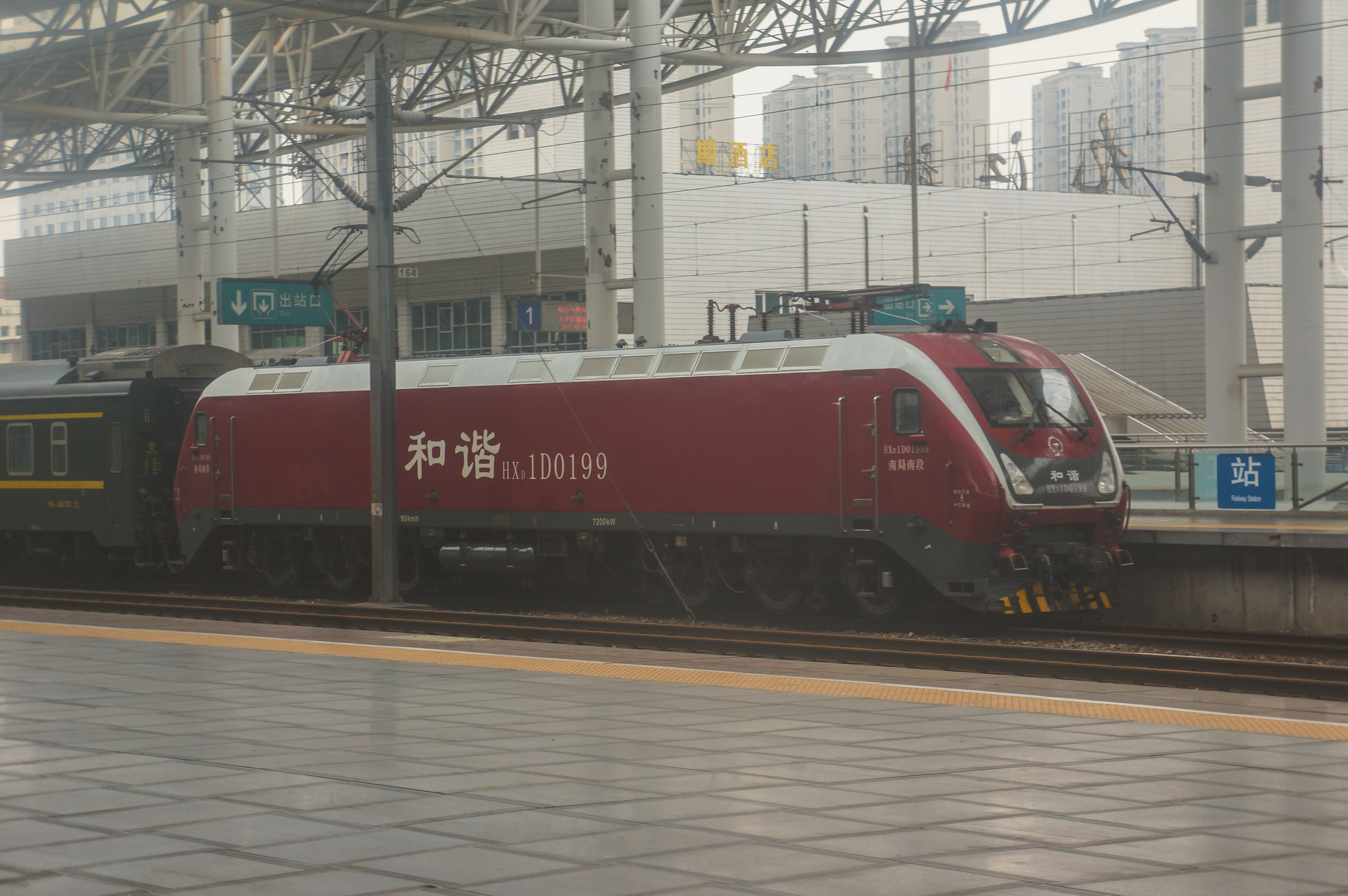 201705 HXD1D-0199 hauls Z386 enters into Jiujiang Station, still a little bit delay